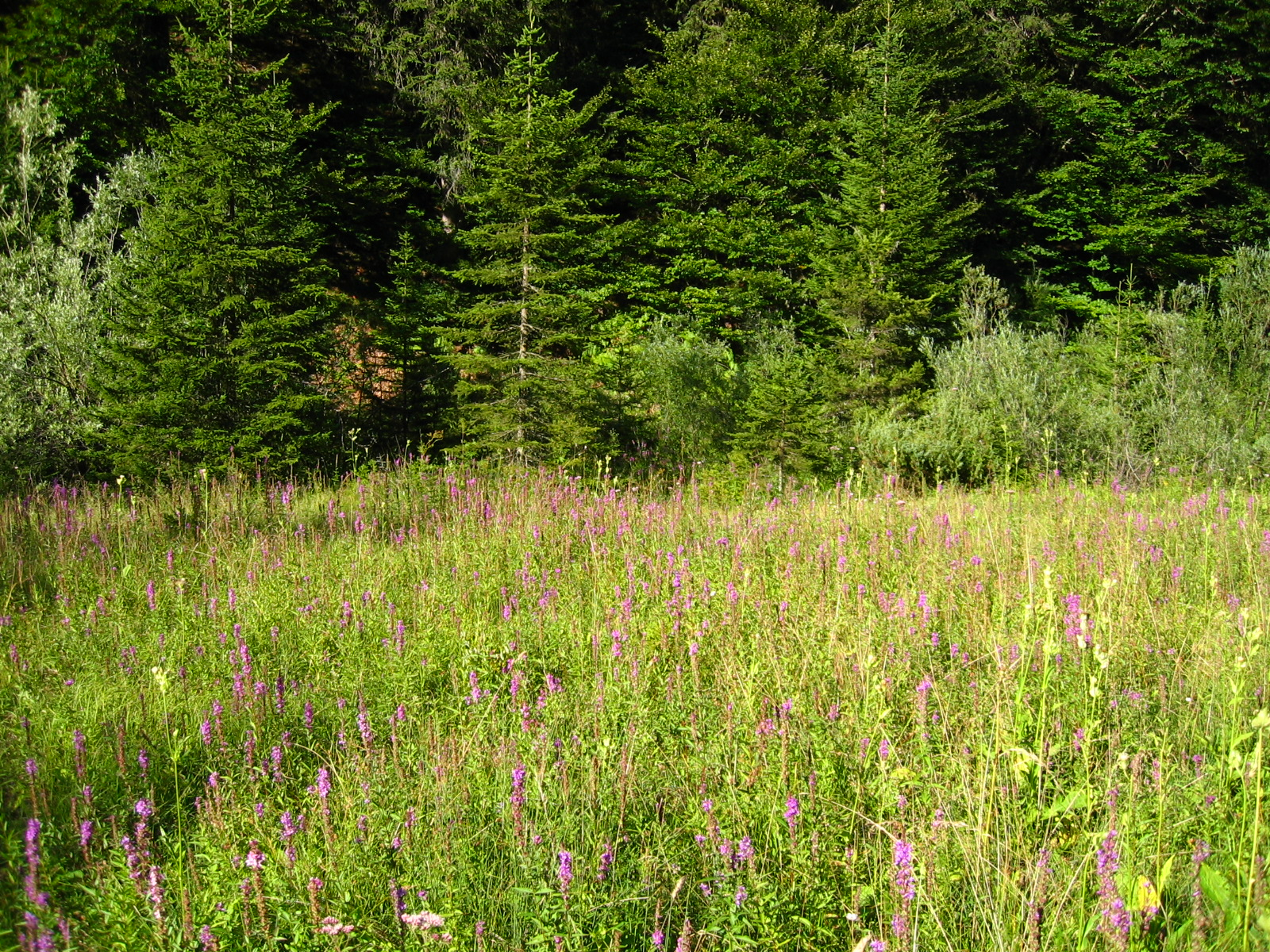 Plitvice Lakes, Croatia, Meadow near Crna Rijeka spring.